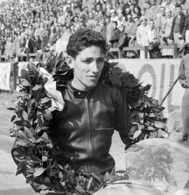 Photograph of the Australian motorcycle racer Tom Phillis (1934–1962) with his Norton cycle in Helsinki, Eläintarhan ajot competition.